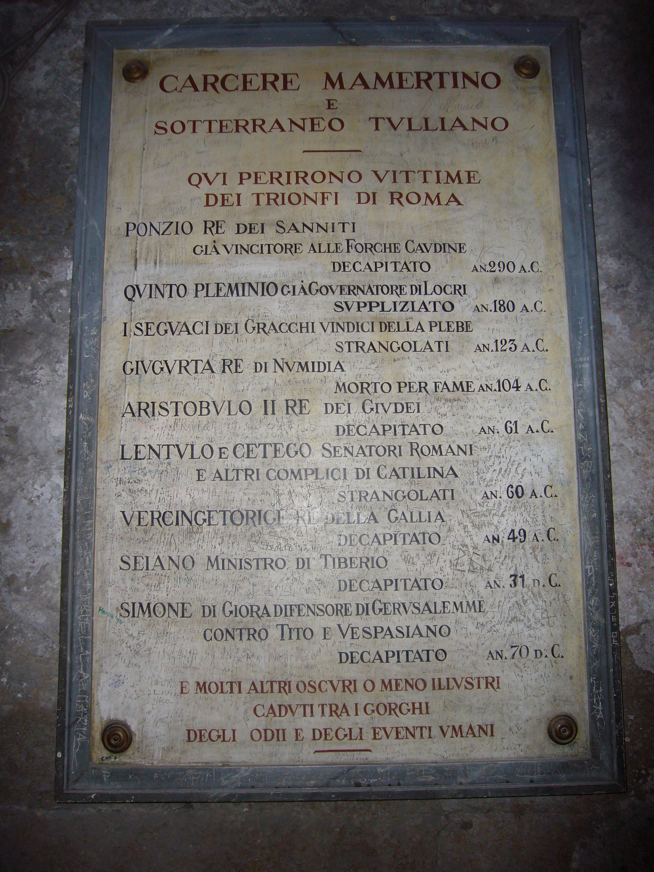 Gravestone in Mamertine Prison (ancient Roman prison), with the names of illustrious prisoners who were locked up in ancient times and executed. Among them the king Aristobulus II, Simon Bar Giora, Jugurtha and Vercingetorix. The inscription in Italian reads: "Here died, victims of the triumphs of Rome: Pontius king of the Samnites, former winner of the Caudine Forks, beheaded 200 BCE; Quintus Pleminius, former governor of Locri, tortured to death 180 BCE; the followers of the Gracchi, defenders of the plebeians, throttled 125 BCE; Jugurtha king of Numidia, starved to death 104 BCE; Aristobulus II king of the Jews, beheaded 61 BCE; Lentulus and Cetegus, Roman senators, and other accomplices of Catiline, throttled 60 BCE; Vercingetorix king of Gallia, beheaded 49 BCE; Sejanus minister of Tiberius, beheaded 31 AD; Simon bar Giora, defender of Jerusalem against Titus and Vespasianus, beheaded 70 AD; and many others, obscure or less famed, who fell in the whirlpools of hatred and human events.